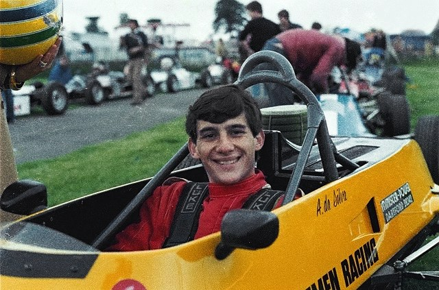 Ayrton Senna in his Van Diemen Formula Ford car in 1981